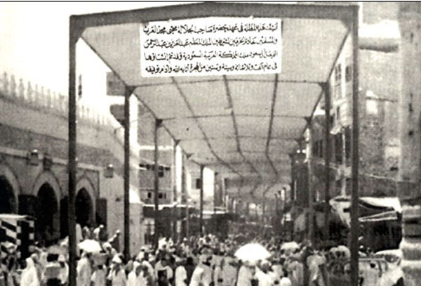 Old Picture for Al-Safa and Al-Marwah